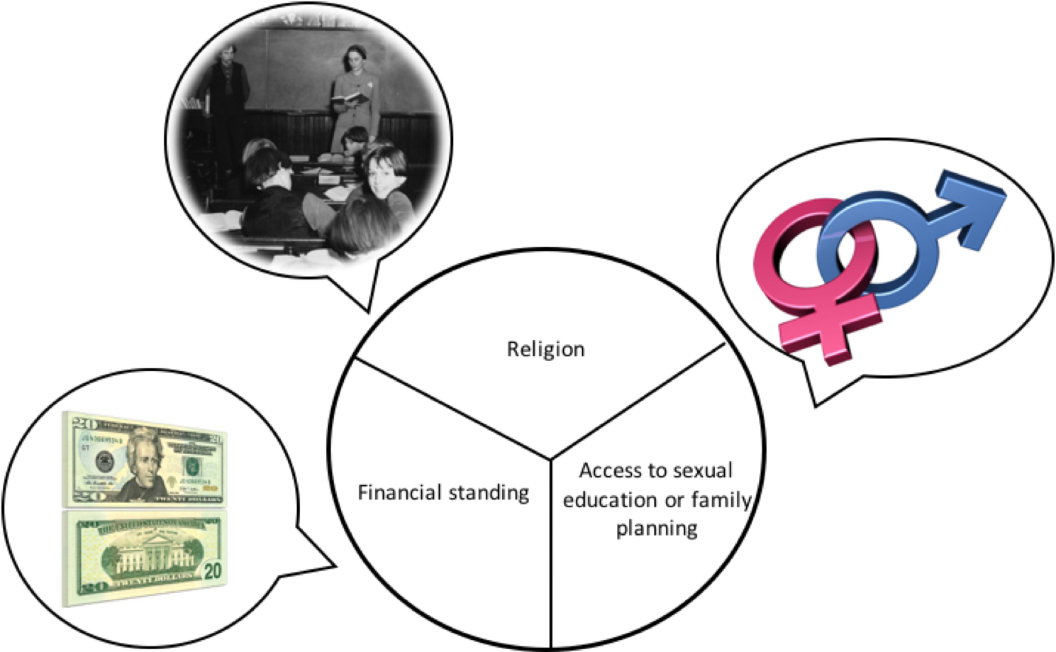 This is an image depicting the three main categories behind practicing natural fertility. It contains sub-pictures of a sex symbol which represents sexual education, a 20 dollar bill which refers to financial status, and an amish classroom which connects to the influence of religious teachings on natural fertility.